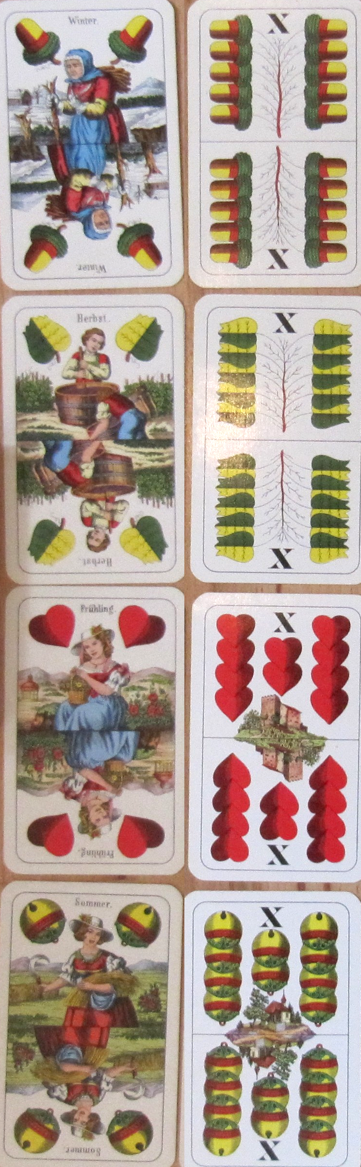 This photograph shows a deck of German playing cards with pictures from the legend of Wilhelm Tell. The deck is labeled “Doppeldeutsche Preference” and has 36 cards.